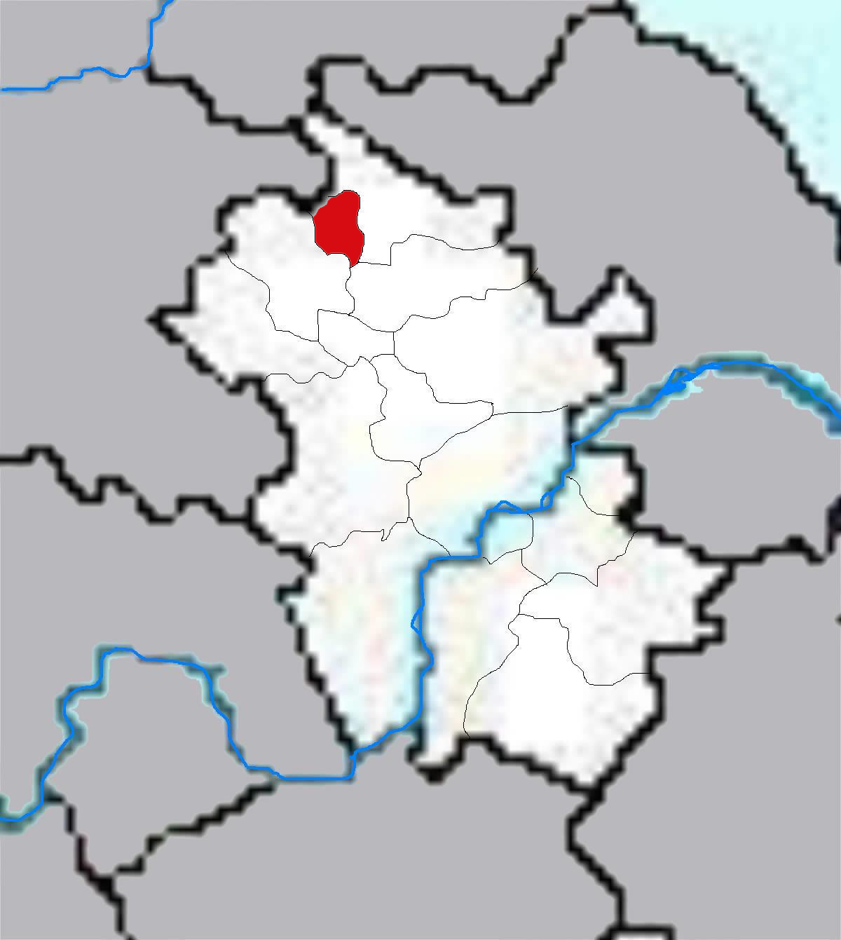 Maps of Anhui Province of China